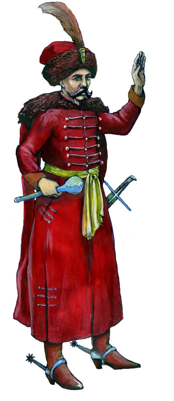 Polish 'winged' hussar rotameister circa battle of Lubieszow 1577. Based on Jost Amman 1581 print. Acrylic and ink. Painted by Dariusz T. Wielec